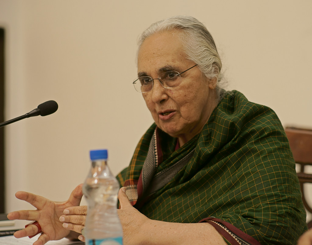 Romila Thapar on 23 June 2016